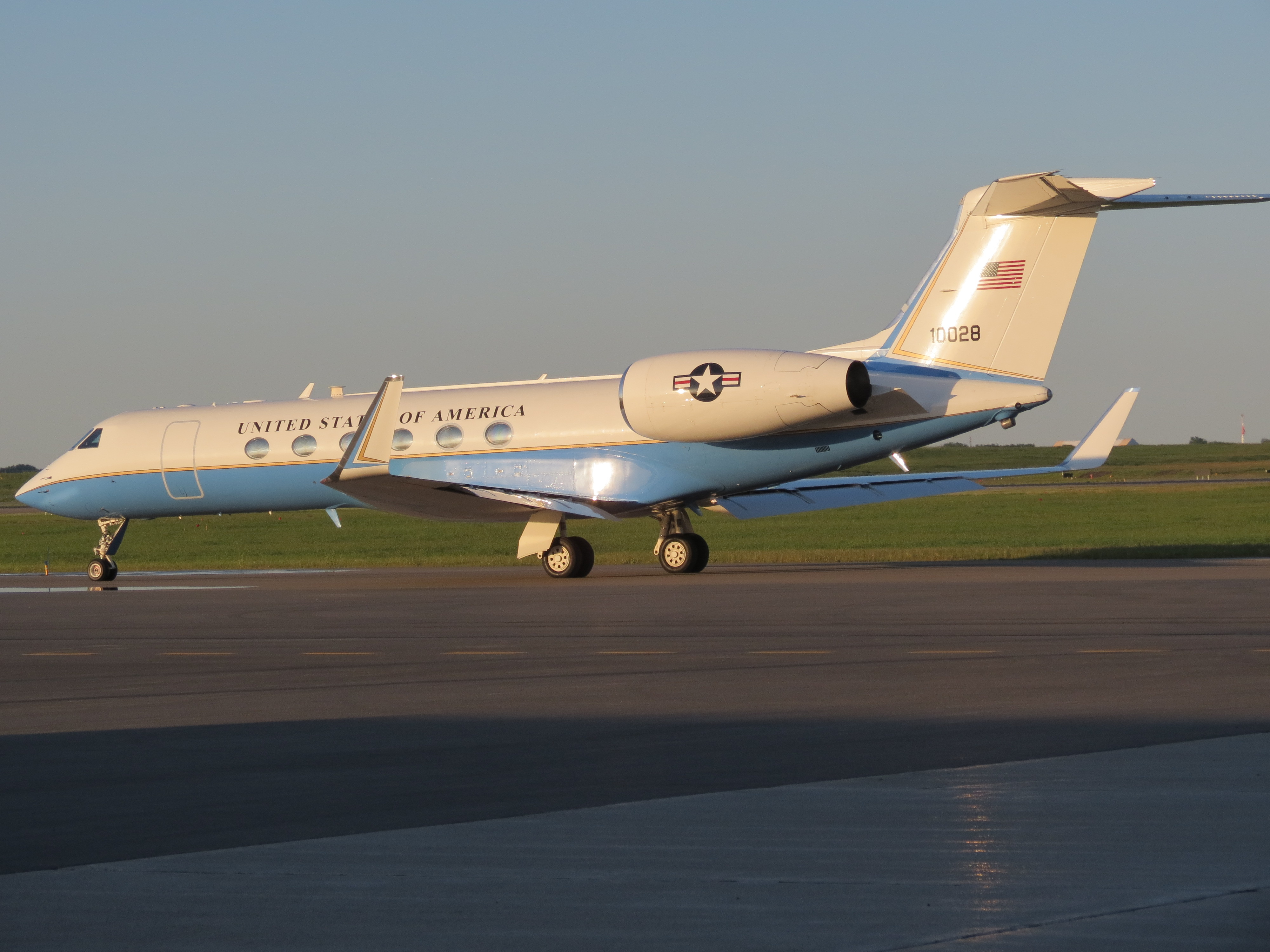 Leaving the Landmark ramp after taking in the first day of Stampede. Love the clean wing of Gulfstreams